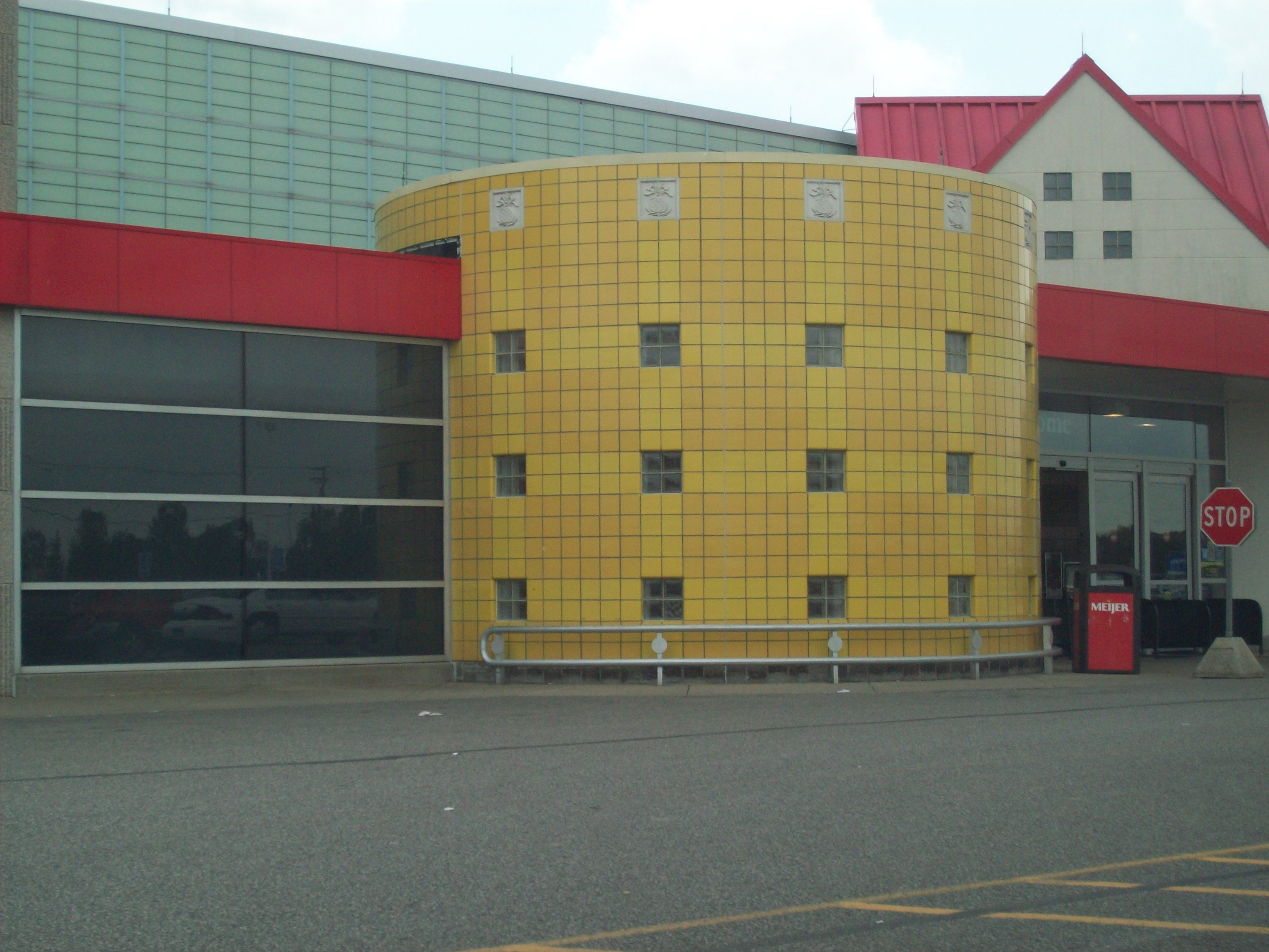 Meijer Food Court Pineapple